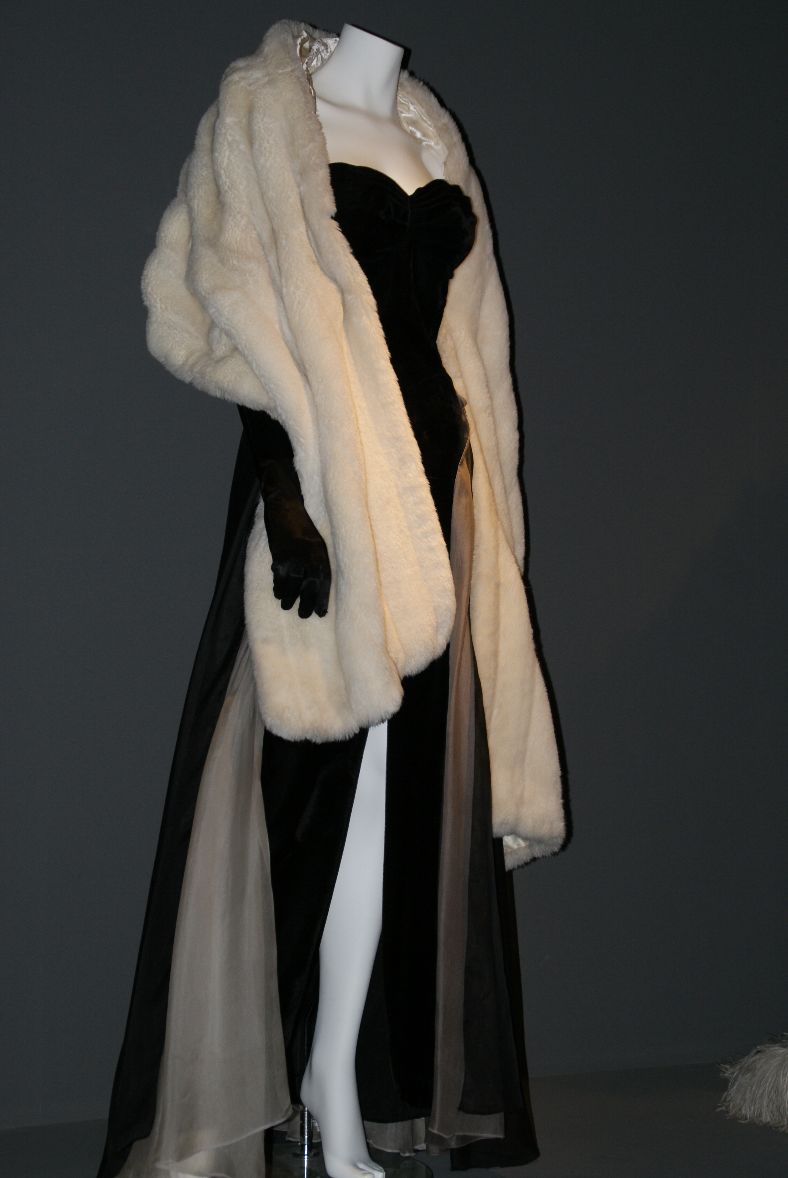 Costume worn by Anita Ekberg in the film La Dolce Vita directed by Federico Fellini in 1960 displayed in Cinecittà studios, Rome, Italy. Costume designer: Piero Gherardi